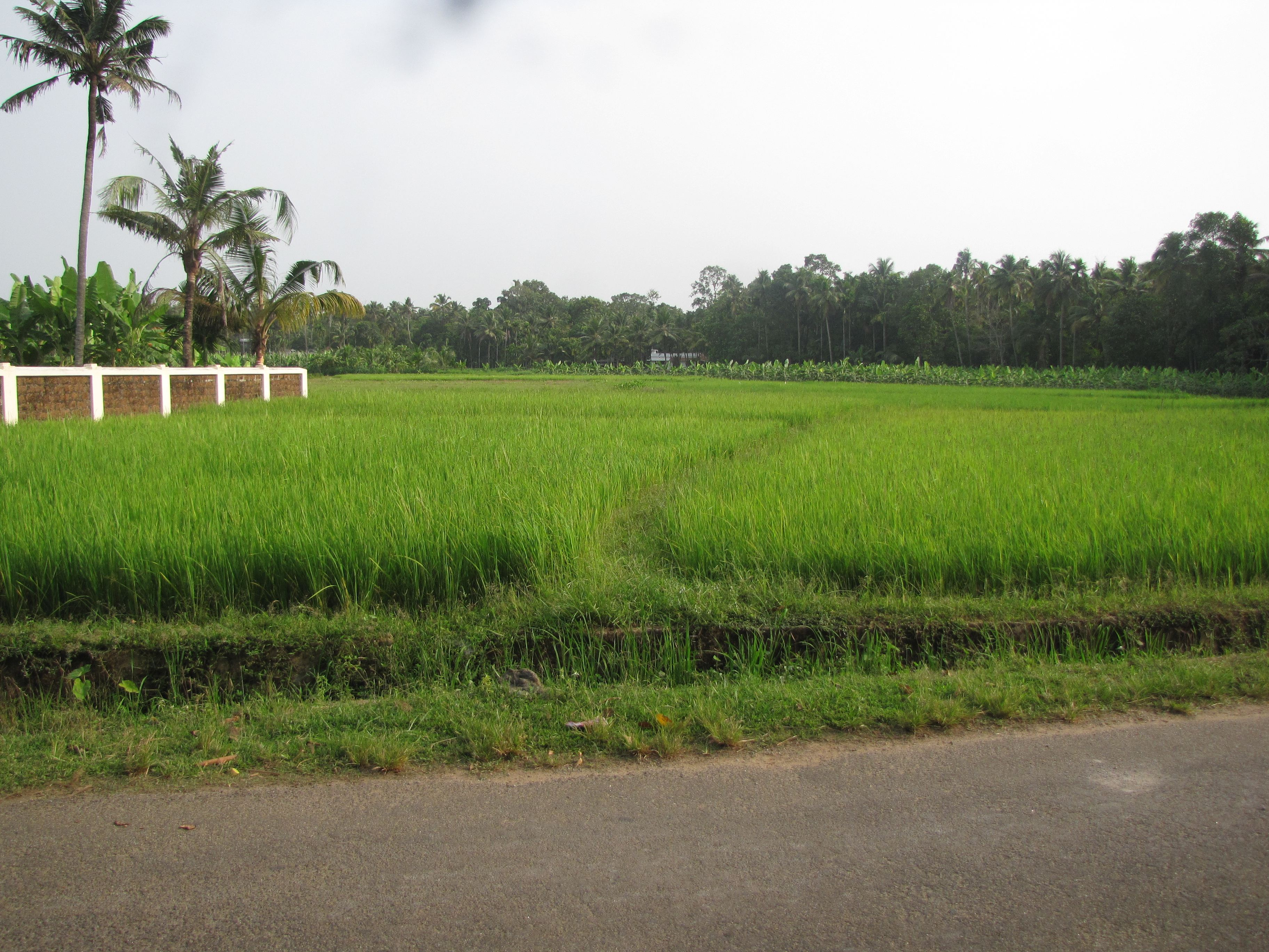 One of the paddy fields in Rayamangalam